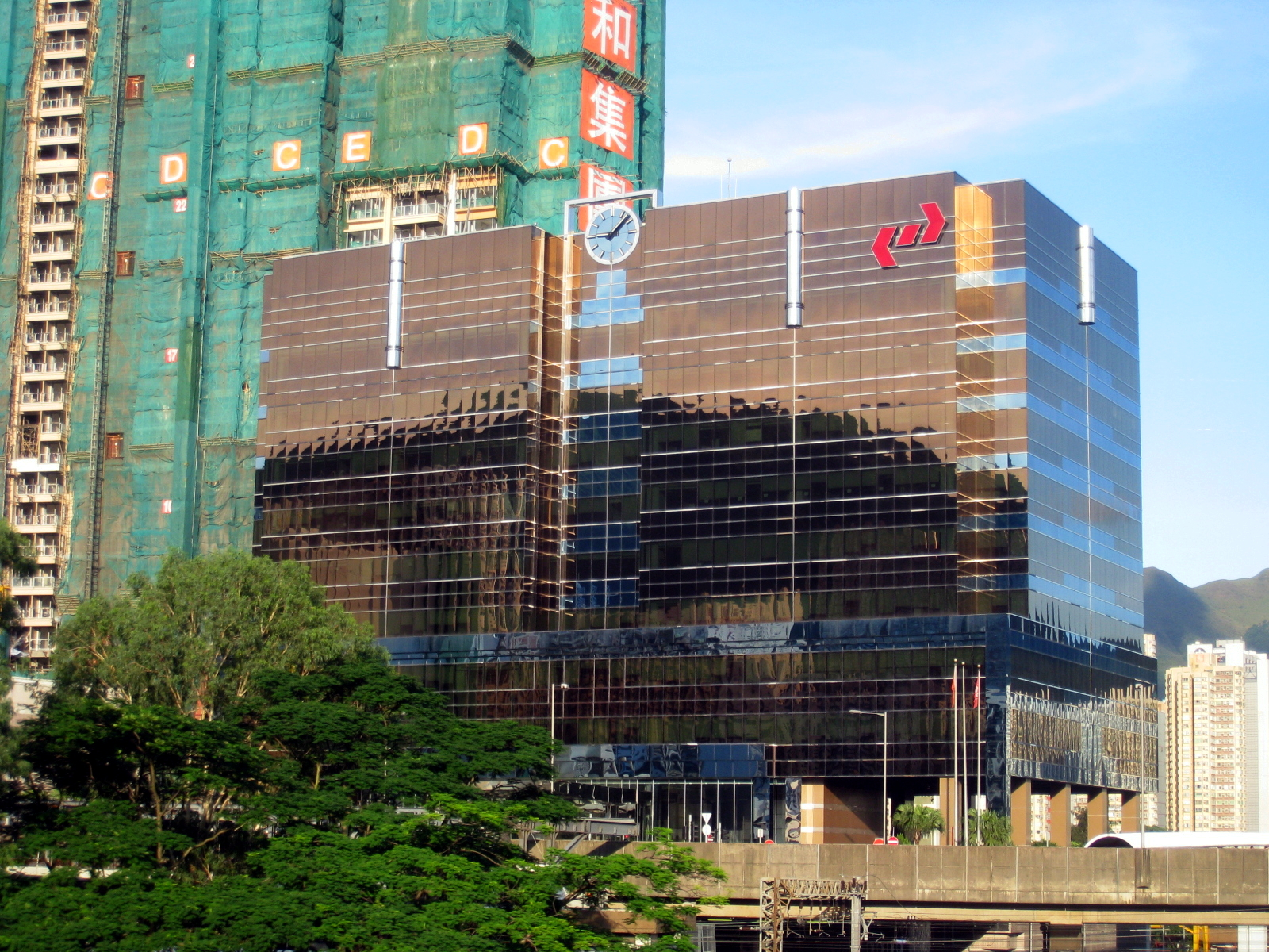 HK KCRC House 火炭鐵路大樓